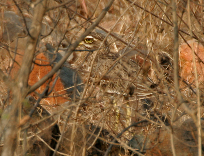 Stone Curlew or Eurasian Stone-curlew Burhinus oedicnemus in Hyderabad, India.